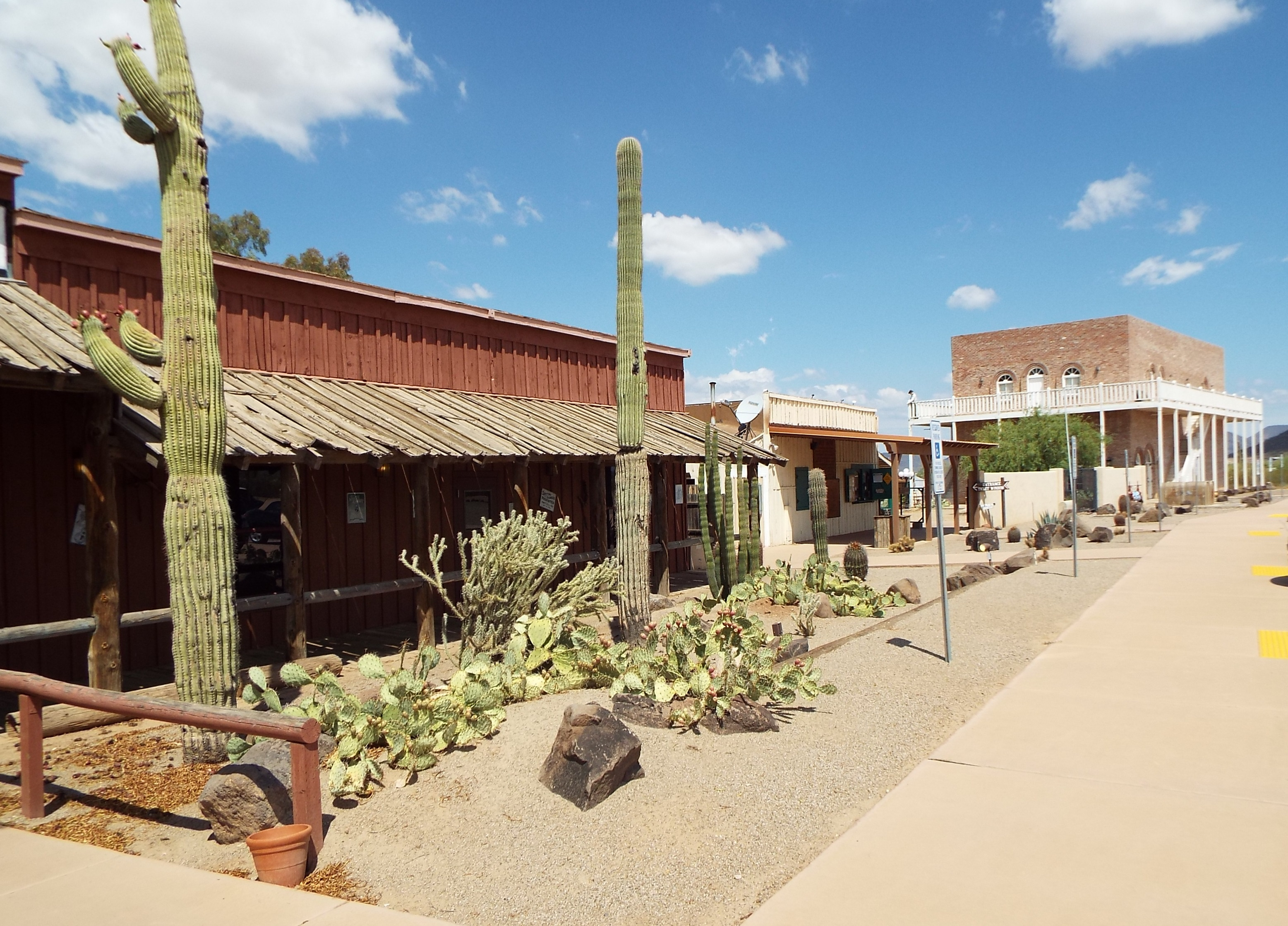 Main entrance to the Pioneer Living History Museum. The museum is located 3901 W. Pioneer Road in Phoenix, Arizona.